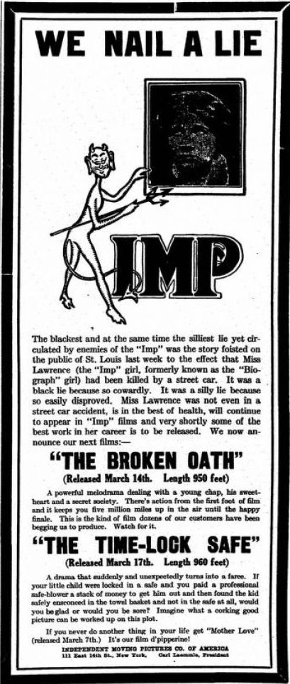 An advertisement in the motion-picture trade magazine, The Billboard, promotes the appearance of Florence Lawrence (previously known as "The Biograph Girl). The film's producer, Carl Laemmle, had spread the false rumor that she was killed and then took out advertisements denying that rumor.